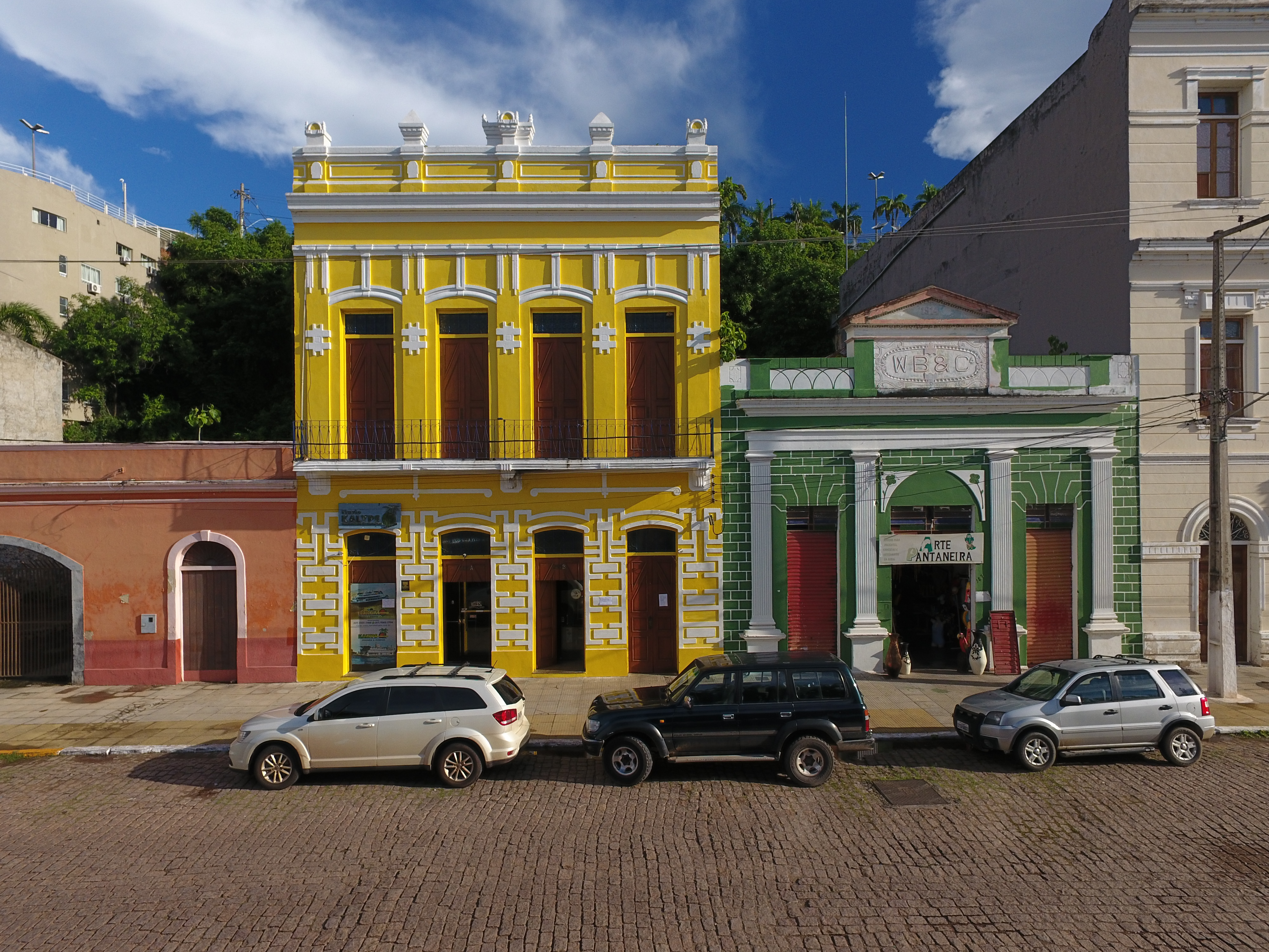 View of historic buildings along the riverfront Porto Geral. In Corumbá, Mato Grosso do Sul, Brazil